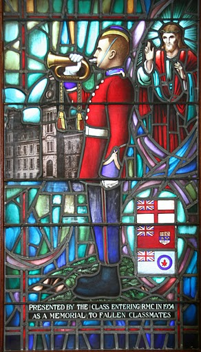 Memorial Stained Glass window, Class of 1934, Royal Military College of Canada, Kingston Ontario, Canada